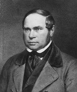 Karl Baedeker (1801-1859), German publisher of travel guides